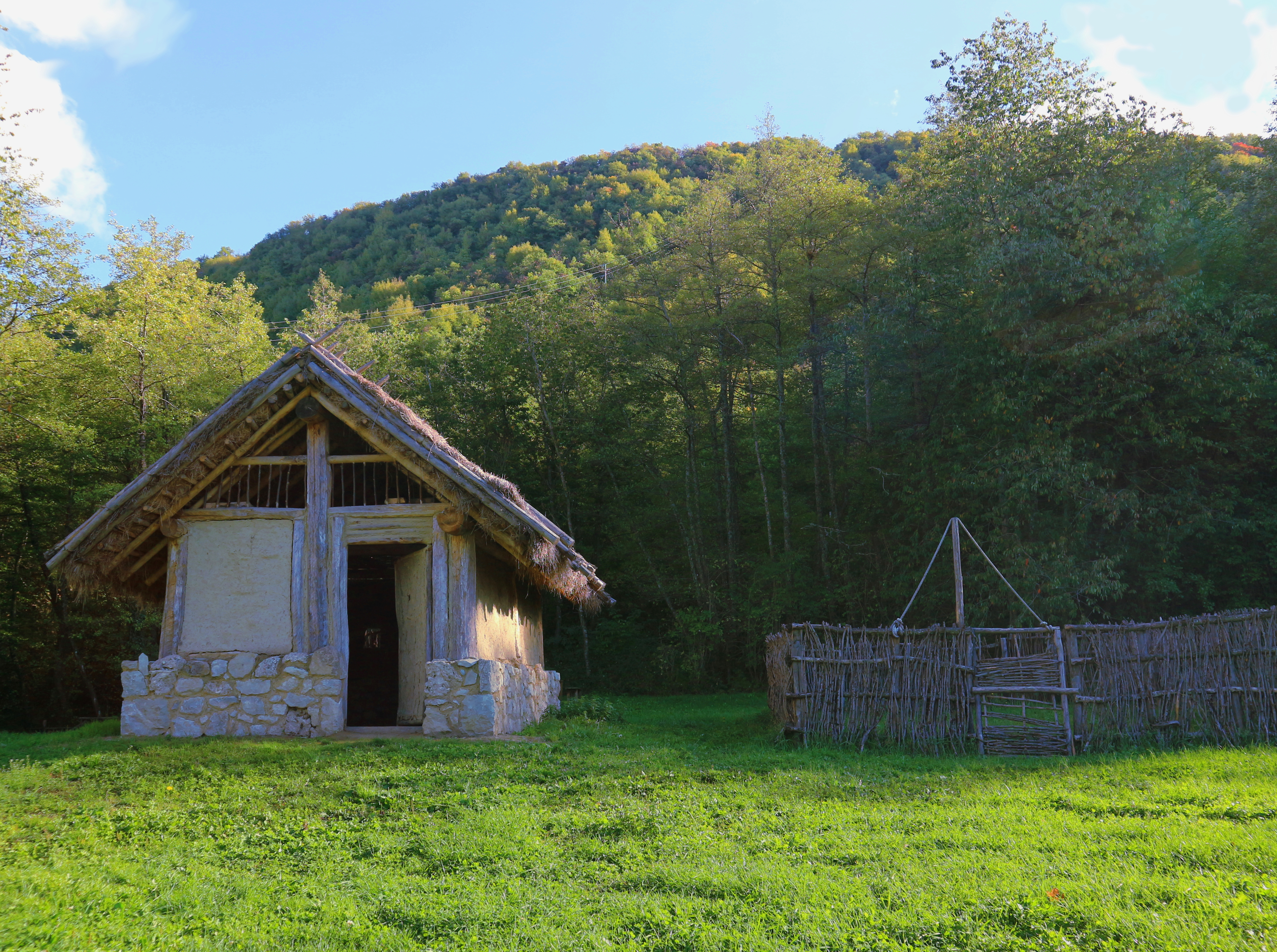 Etruscan hut replica, rebuilt in an area where this civilisation lived between the 6th and the 4th century B.C. - Montese, Italy